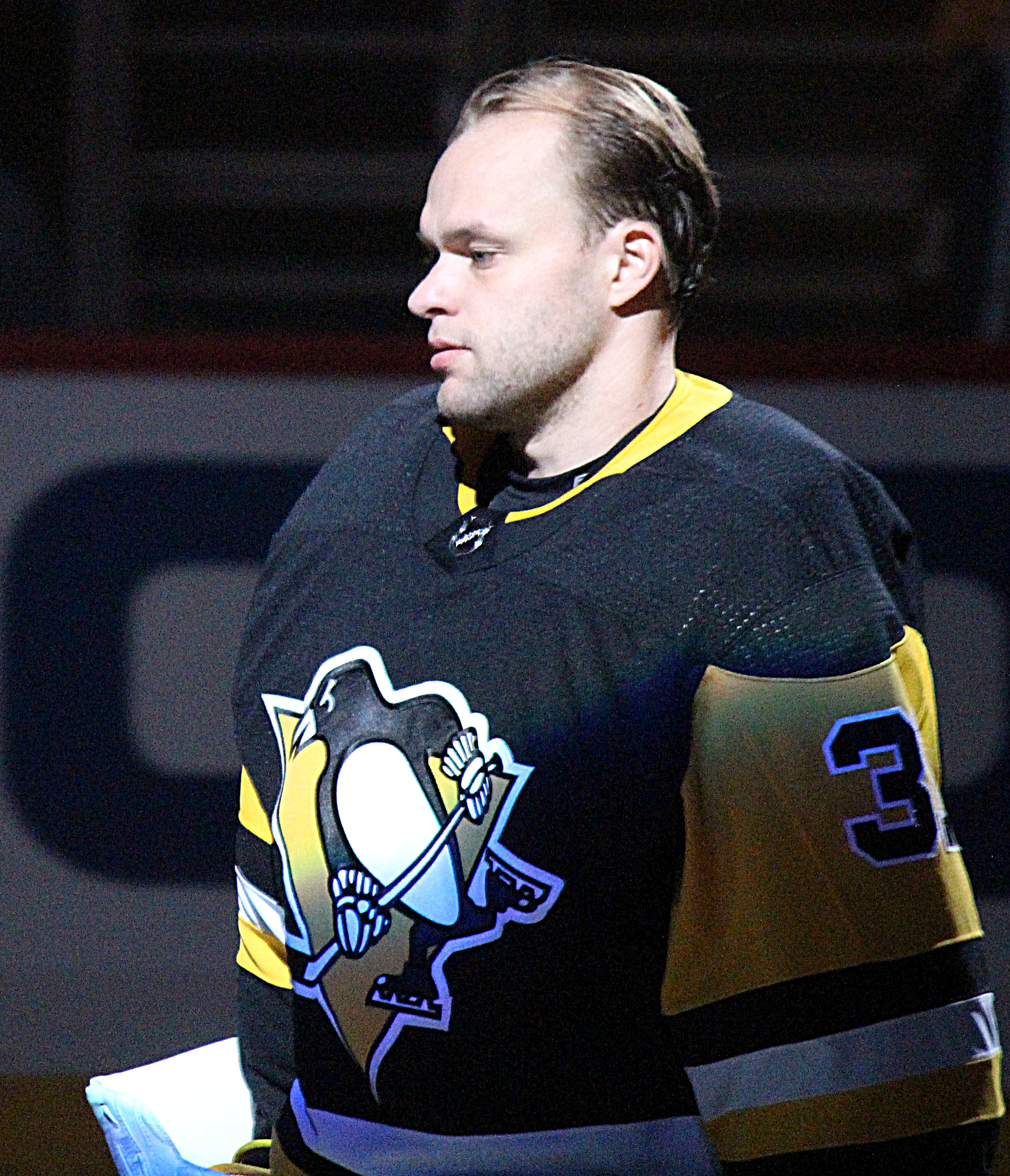 Pittsburgh Penguins goaltender Anti Niemi during a game against the St. Louis Blues, October 4, 2017, at PPG Paints Arena in Pittsburgh, PA.